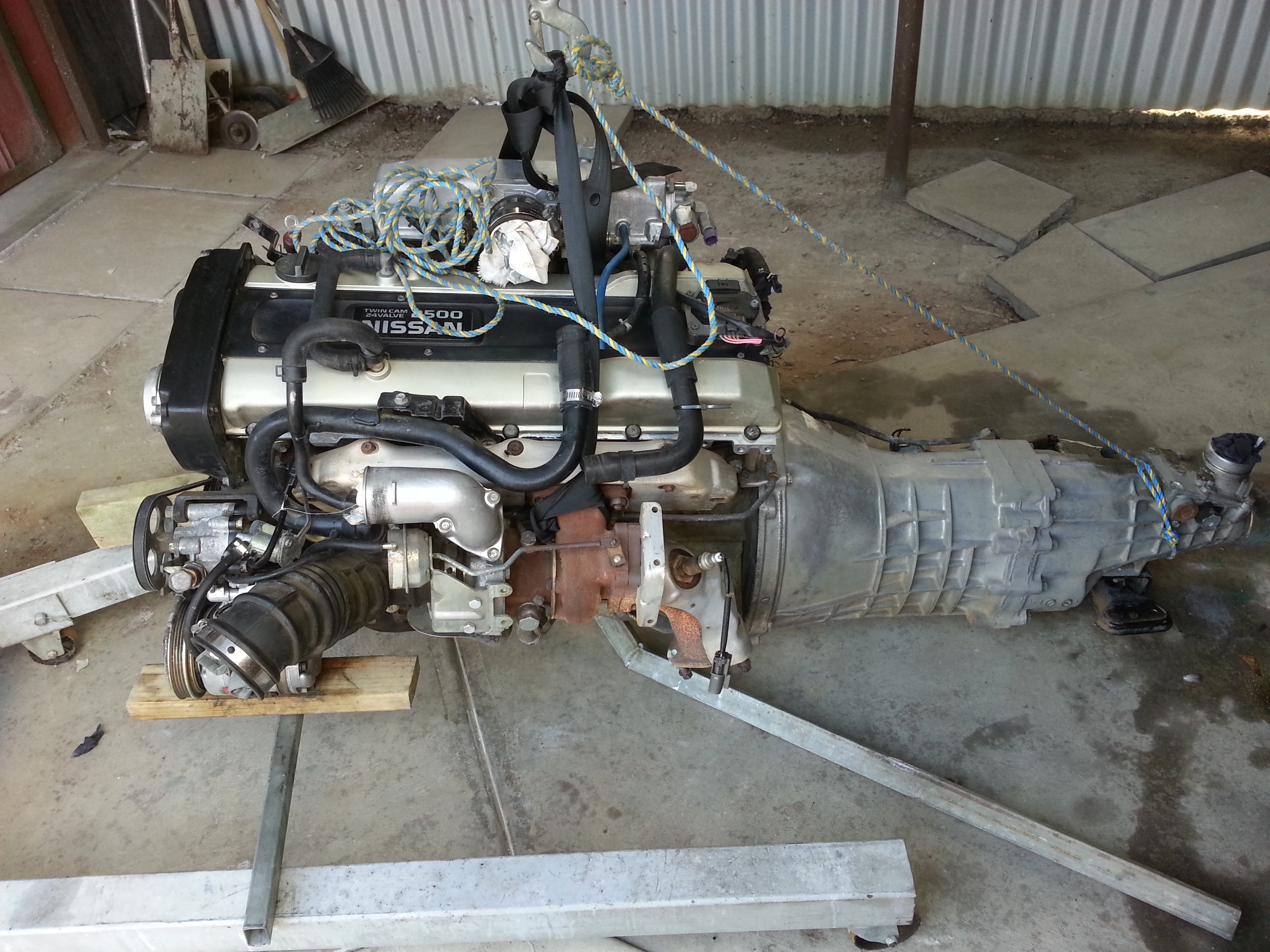 RB25DET a friend pulled from an R33 GTST